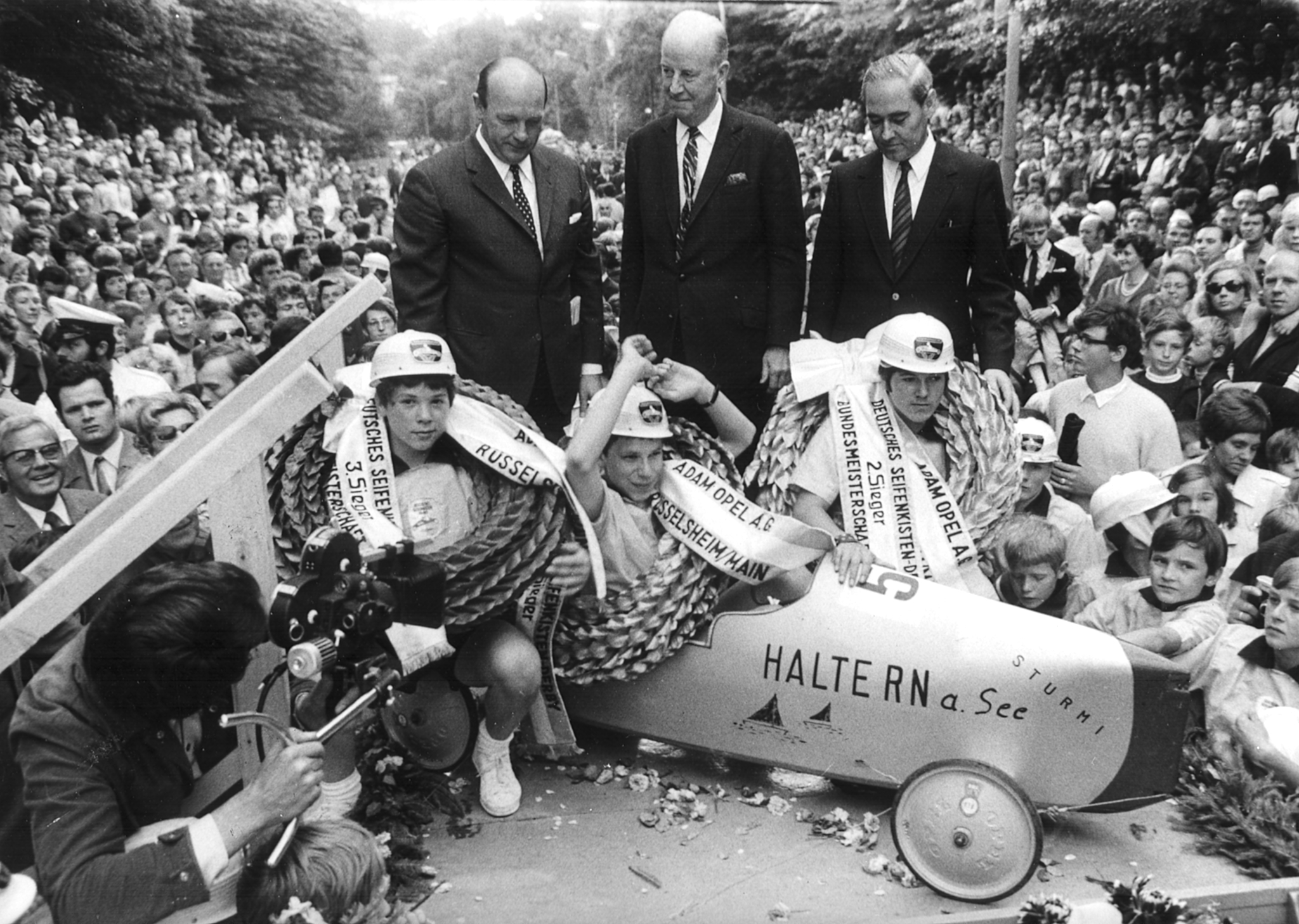 German Soap Box derby 1970 in Duisburg. From left Rudolf Breinl from Oberursel, 3rd, Heinz Gerding from Haltern, 1st, and Karl-HeinzHartrampf from Münsingen, 2nd. Second row from left Regional ADAC sports director Kurt Bosch, Director General of the Adam Opel AG, Ralph Mason, and Lord Mayor of Duisburg, Arnold Masselter.